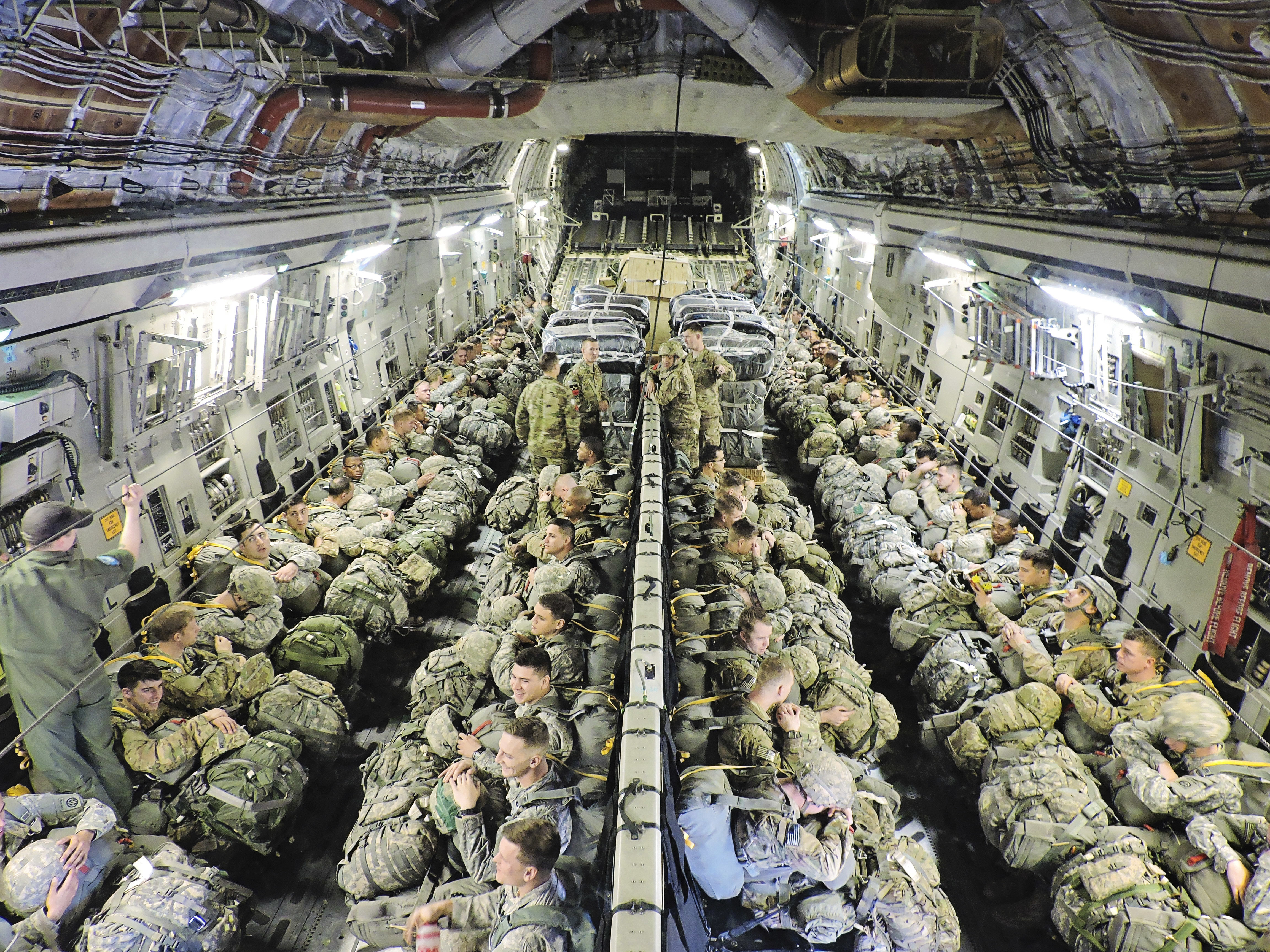 Paratroopers with the 82nd Airborne Division, Fort Bragg, N.C., sit aboard a C-17 Globemaster III aircraft from the 249th Airlift Squadron, Alaska Air National Guard, Jan. 11 during a joint airborne air transportability training mission. The 249th AS, based out of Joint Base Elmendorf-Richardson, Alaska, conducted a squadron-wide mock deployment with several missions during their two-week annual training, based out of Gulfport, Miss., Jan. 8-18. Other missions included assault zone training, low level training, approach at unfamiliar airports, and a simulated astronaut rescue mission in the Atlantic Ocean with NASA and personnel from the 45th Space Wing and the 920th Rescue Wing. Unit: 176th Wing Public Affairs DVIDS Tags: 82nd Airborne Division; C-17; Globemaster; Pope Air Force Base; aircraft; exercise; Fort Bragg; paratrooper; Airborne; 176th Wing; Tern; 176th Maintenance Group; 176th Operations Support Squadron; 249th Airlift Squadron